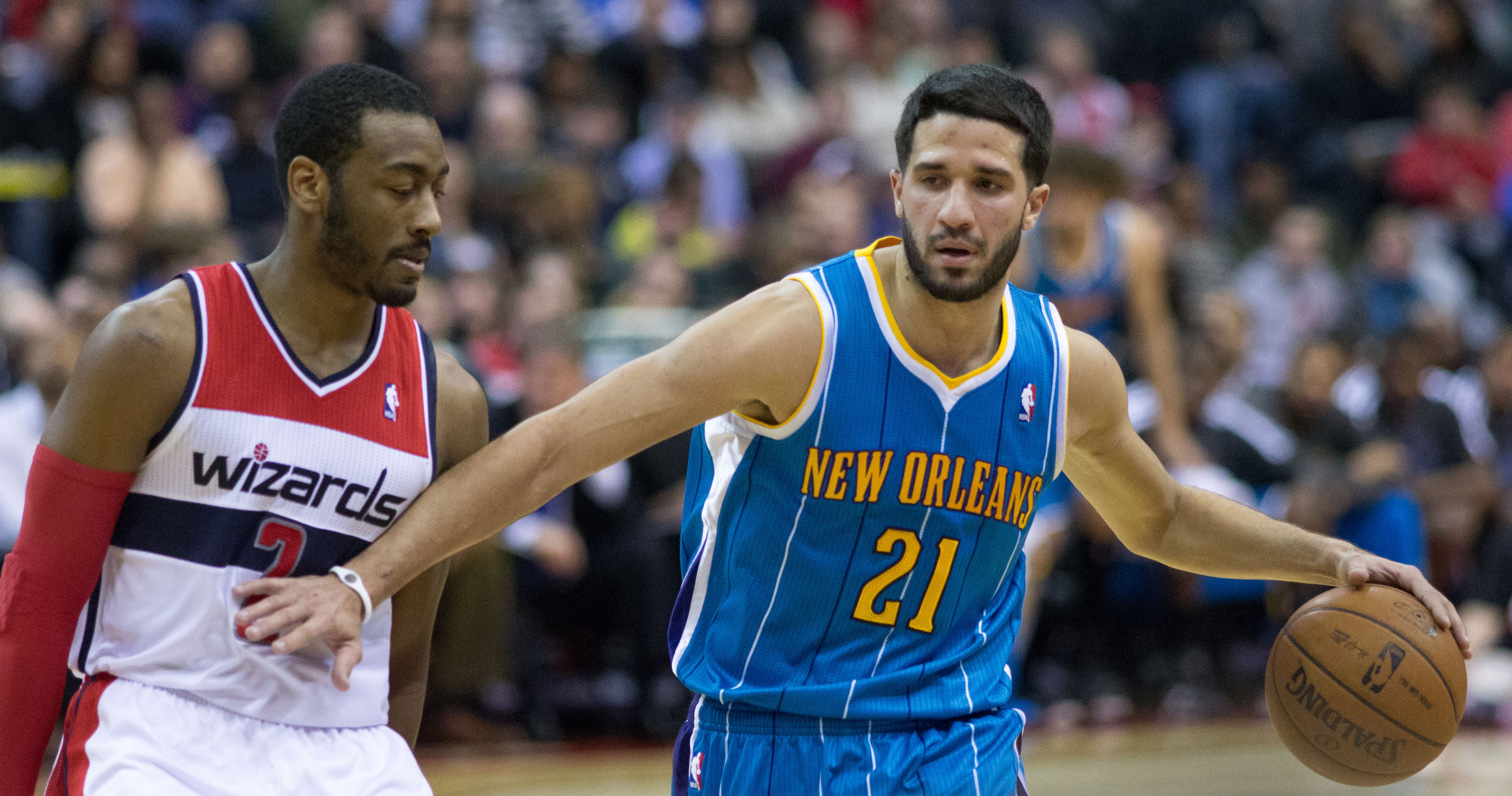 New Orleans Hornets at Washington Wizards March 15, 2013